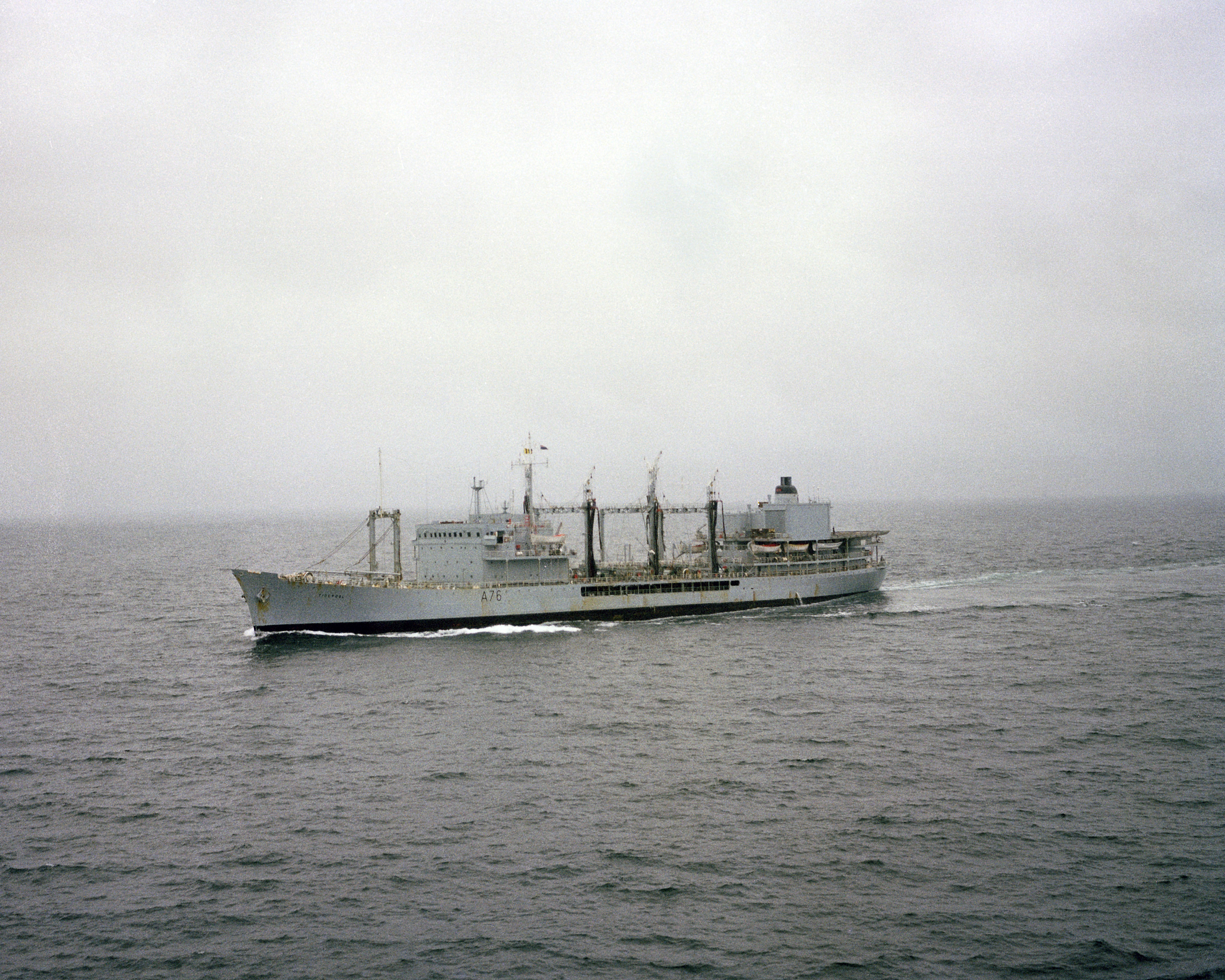 A port bow view of the British large fleet tanker RFA TIDEPOOL (A 76) underway.